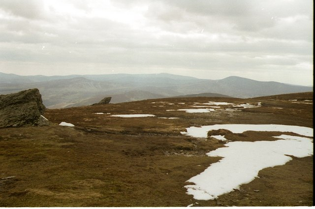 Snow on White Hill. On the Wicklow Way below Djouce Mountain